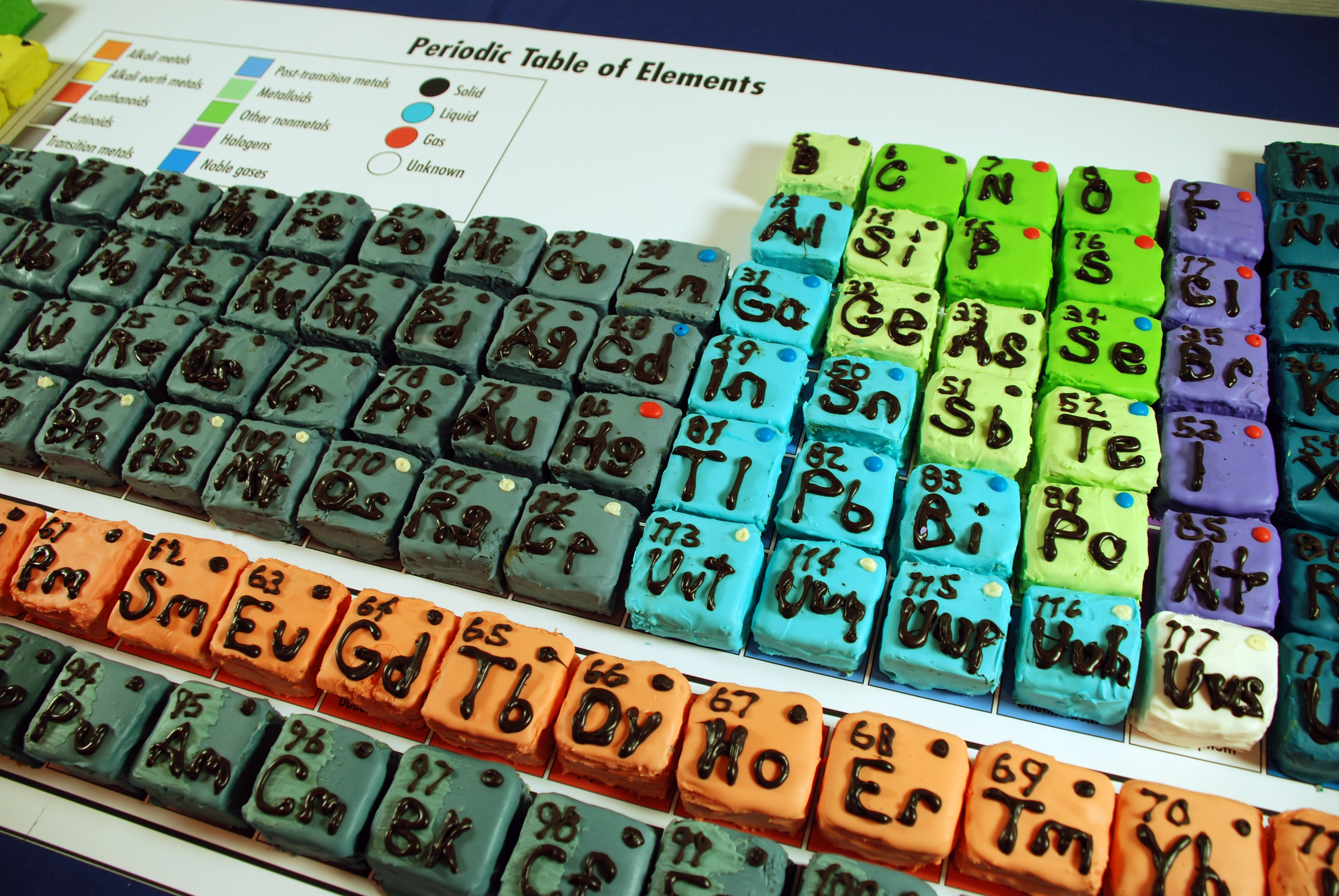 Photograph of Periodic Table Cupcakes, 2 October 2010, at the First Friday first anniversary of the Chemical Heritage Foundation's museum opening, at the Chemical Heritage Foundation, Philadelphia, PA, USA. The cupcakes were created by Jennifer McCafferty of JPM Catering.